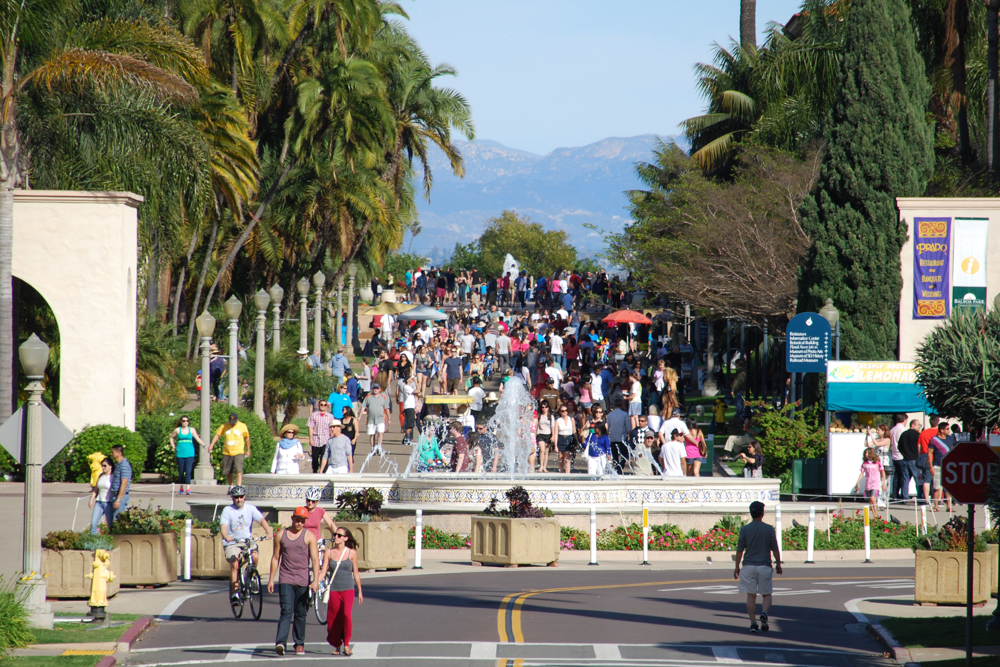 Balboa Park, San Diego, California, based on User:Fastily